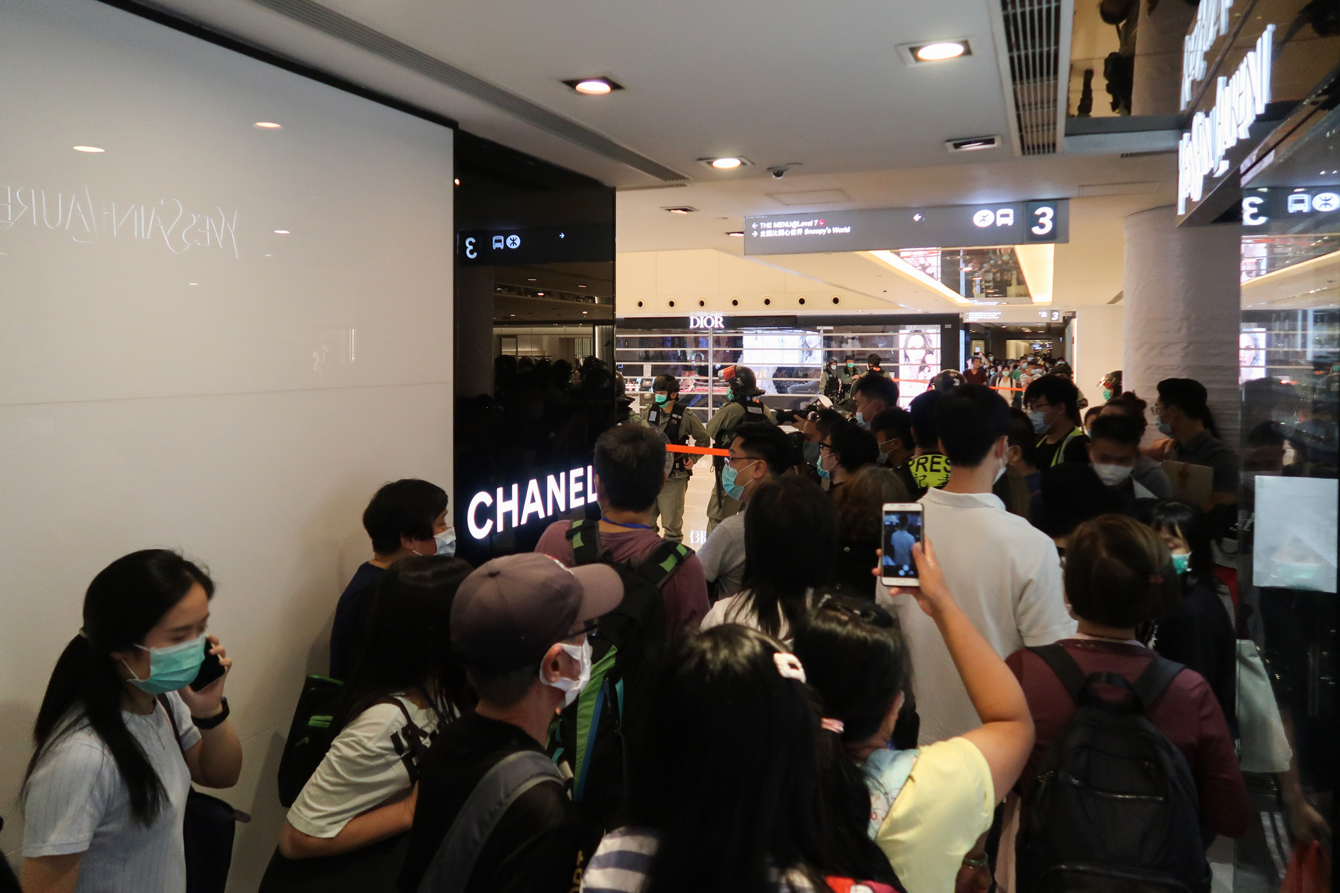 Riot police blocked New Town Plaza Level 3 main access